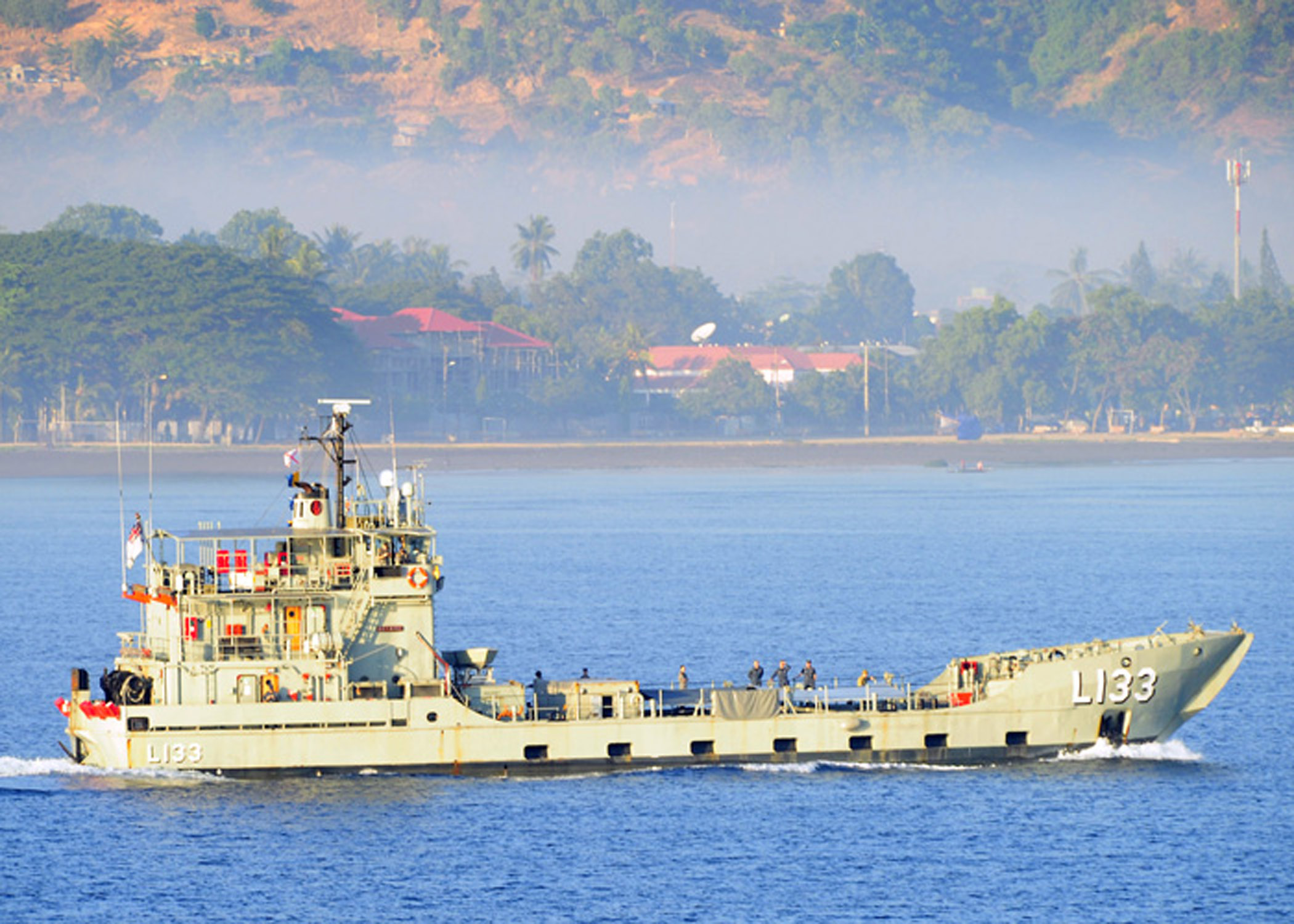 DILI, Timor-Leste (Jun 19, 2011) - Royal Australian Navy Landing Craft Heavy (LCH) L133 HMAS Betano transits through the Banda Sea during the Timor-Leste phase of Pacific Partnership 2011. Pacific Partnership is a five-month humanitarian assistance initiative that will make port visits to Tonga, Vanuatu, Papua New Guinea, Timor-Leste and the Federated States of Micronesia.